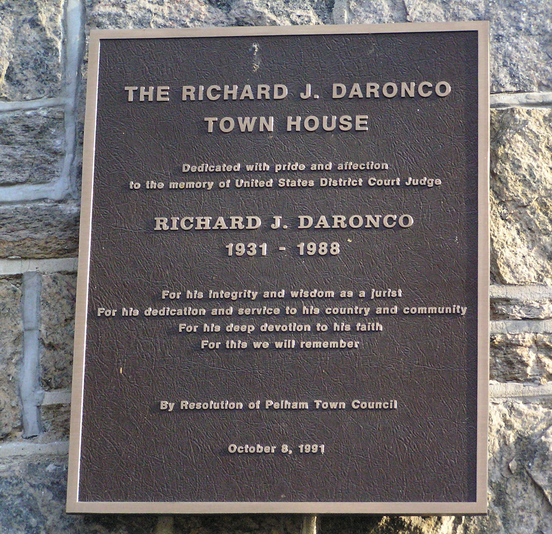 This is a photograph of the plaque on the stone wall of the Richard J. Daronco Town House on Fifth Avenue in Pelham. Judge Daronco lived in Pelham when he was killed by a crazed gunman in 1988.